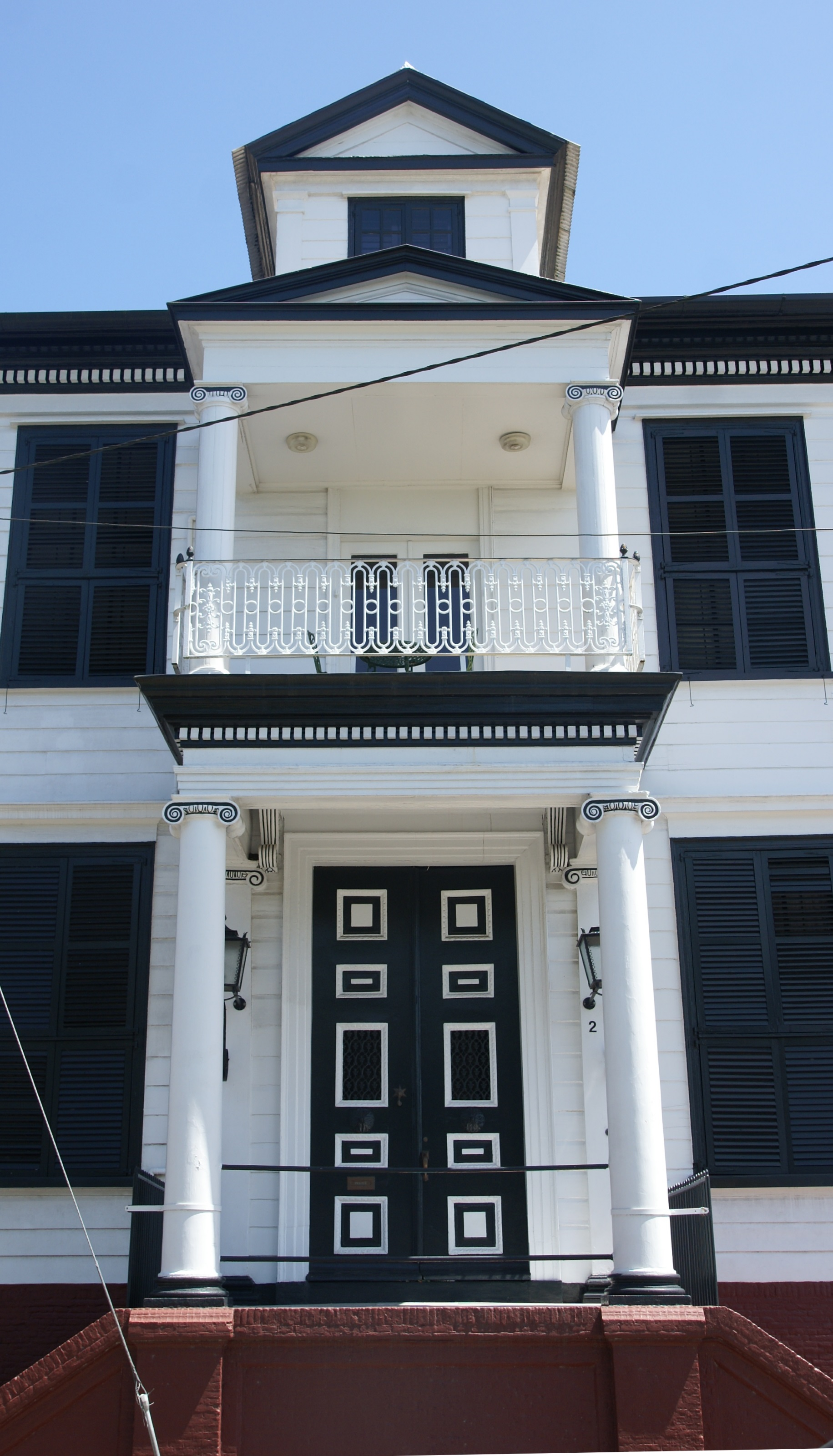 Waterkant 2, Paramaribo, Surinam. Midsection with entrance and balcony.